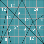 ostomachion grid numbers